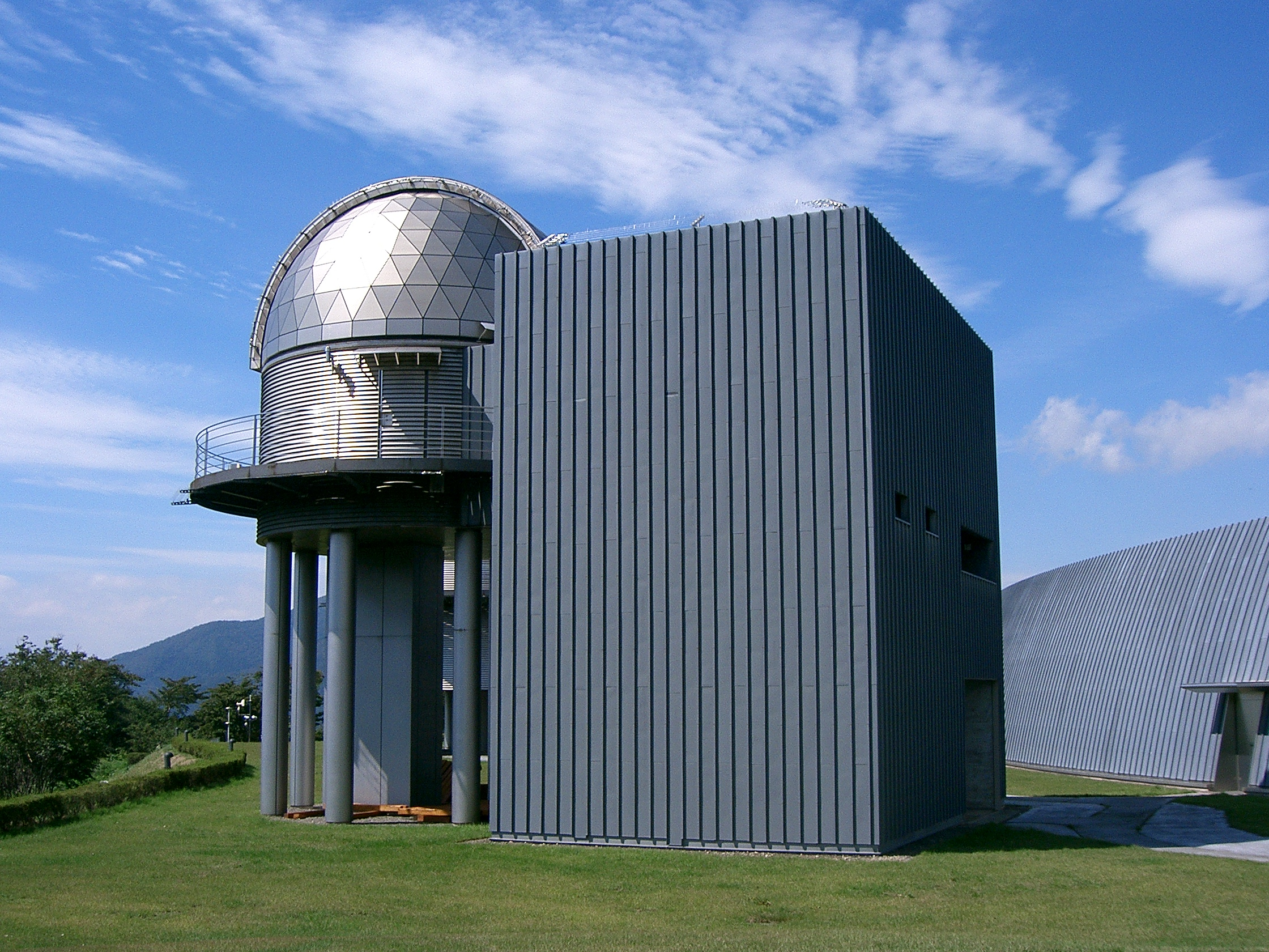 7-meter dome of Gunma Astronomical Observatory (GAO), storing 65-centimeter telescope.